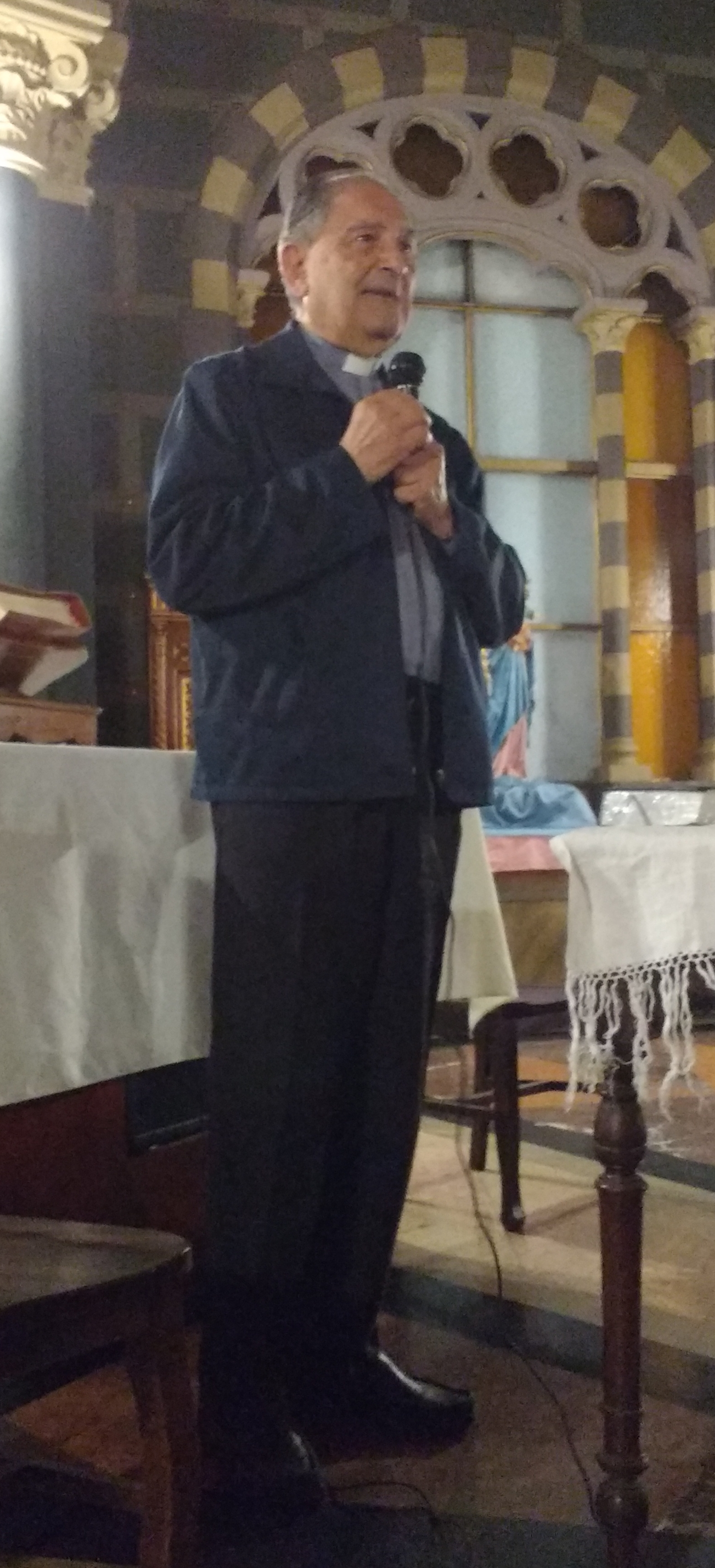 Luis Heriberto Rivas, Argentine biblical scholar and theologian, during a conference presentation.